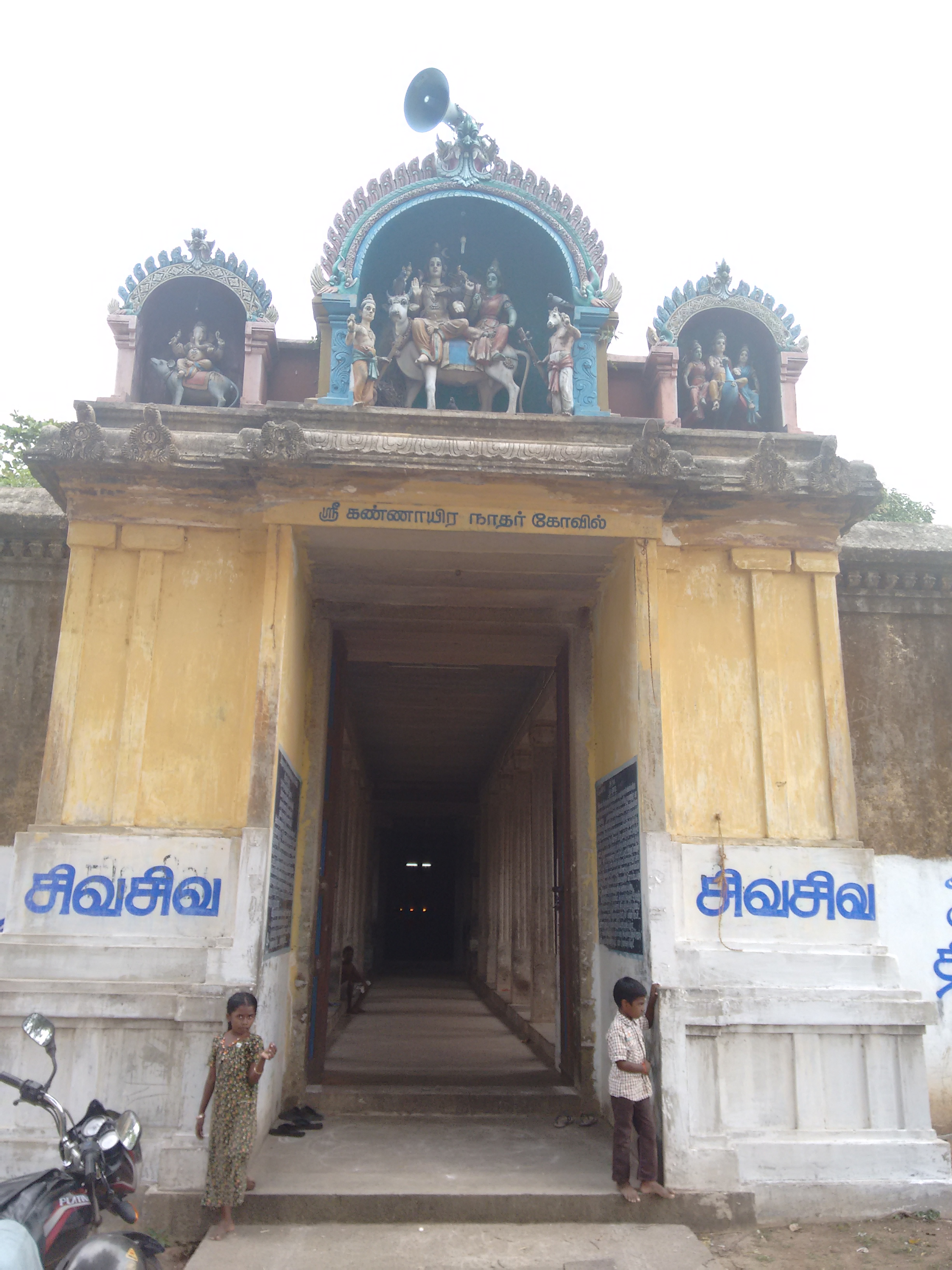 Kurumanakkudi Kannar Temple குறுமாணக்குடி திருக்கண்ணார் கோயில்